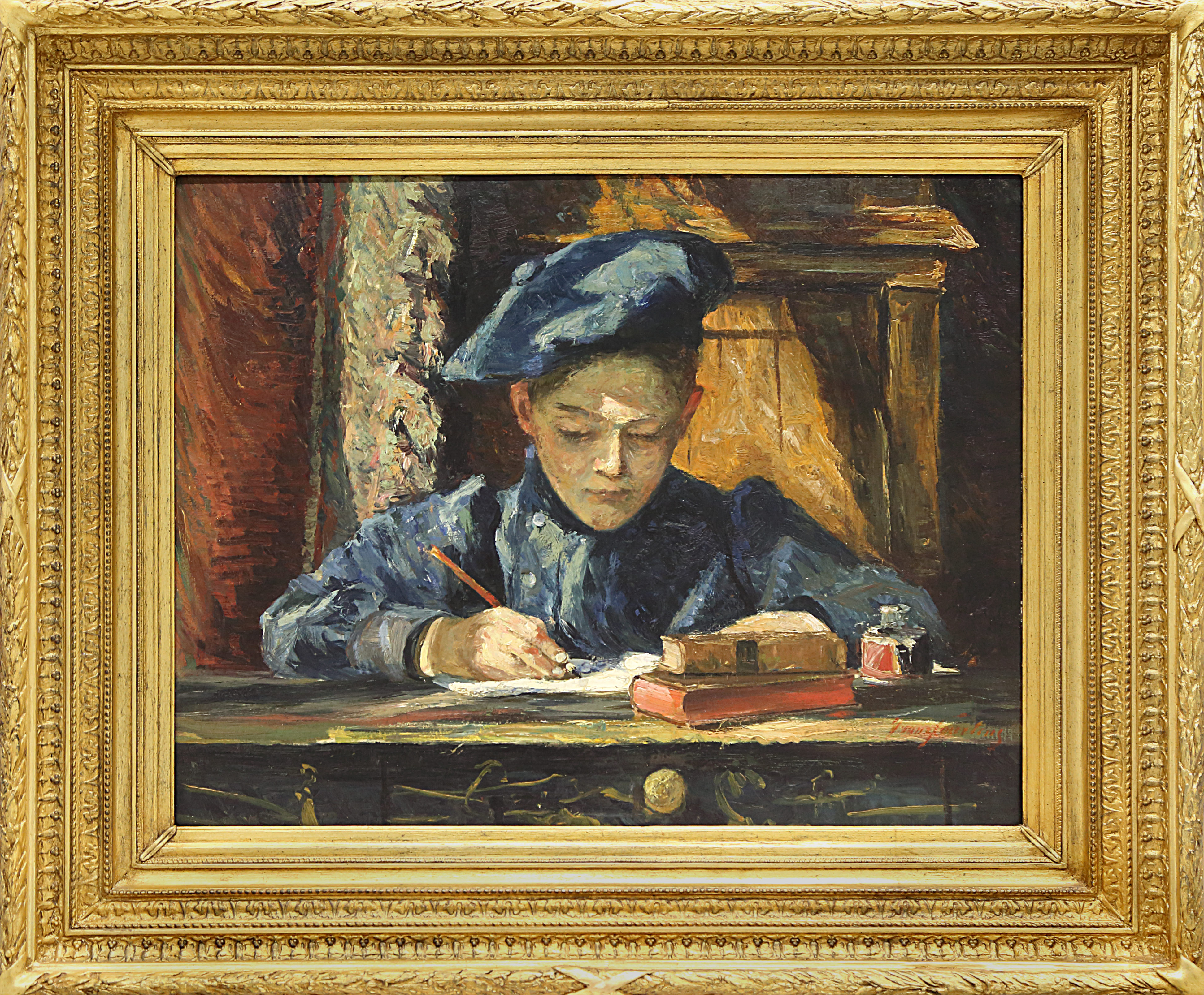 Franz Courtens, « The young student », 1893, oil on wood. Private collection. Picture taken in the cultural centre Marius Staquet in Mouscron, Belgium.